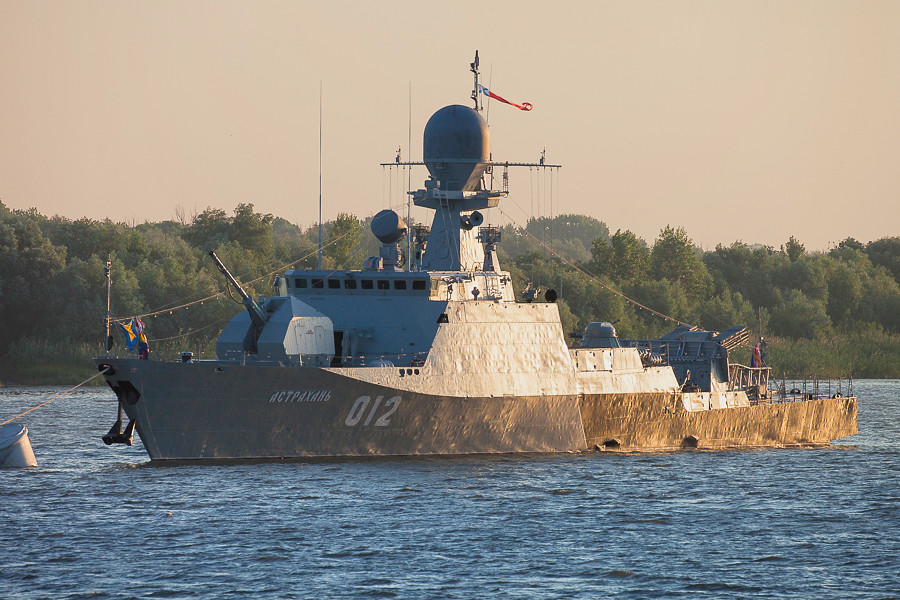 Astrakhan in Astrakhan.